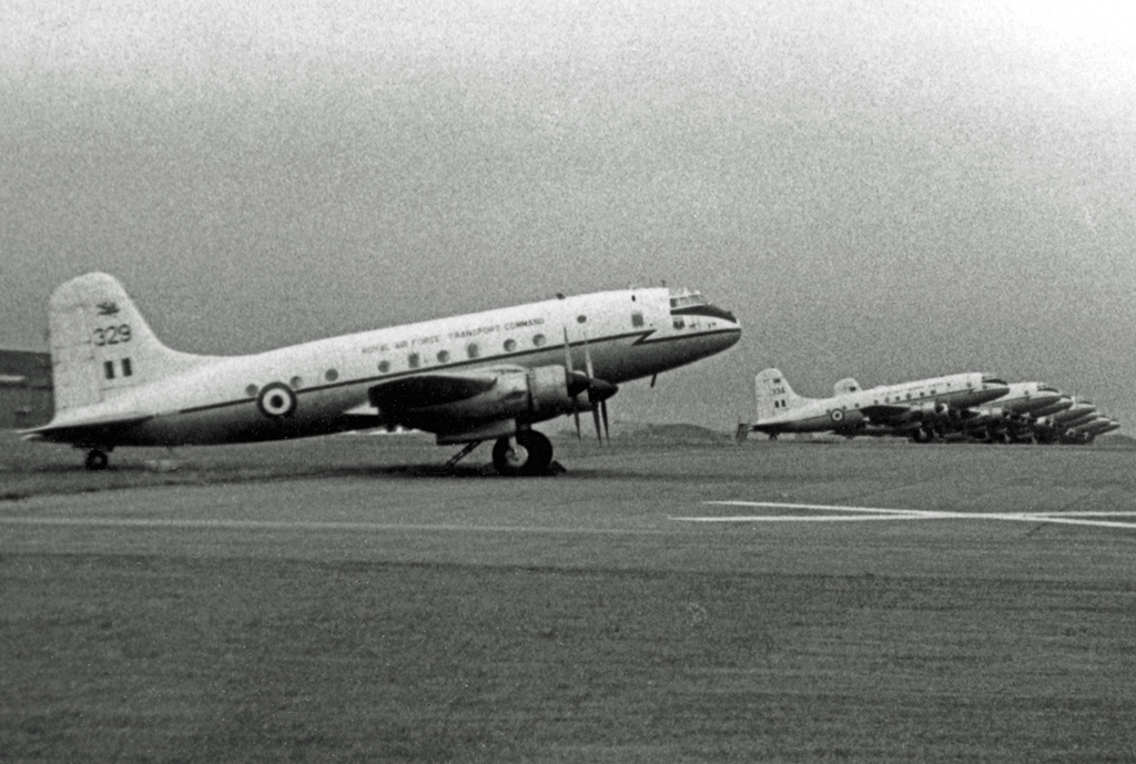 Handley Page Hastings C.2 WJ329 of No. 24 Squadron RAF at RAF Colerne in 1967